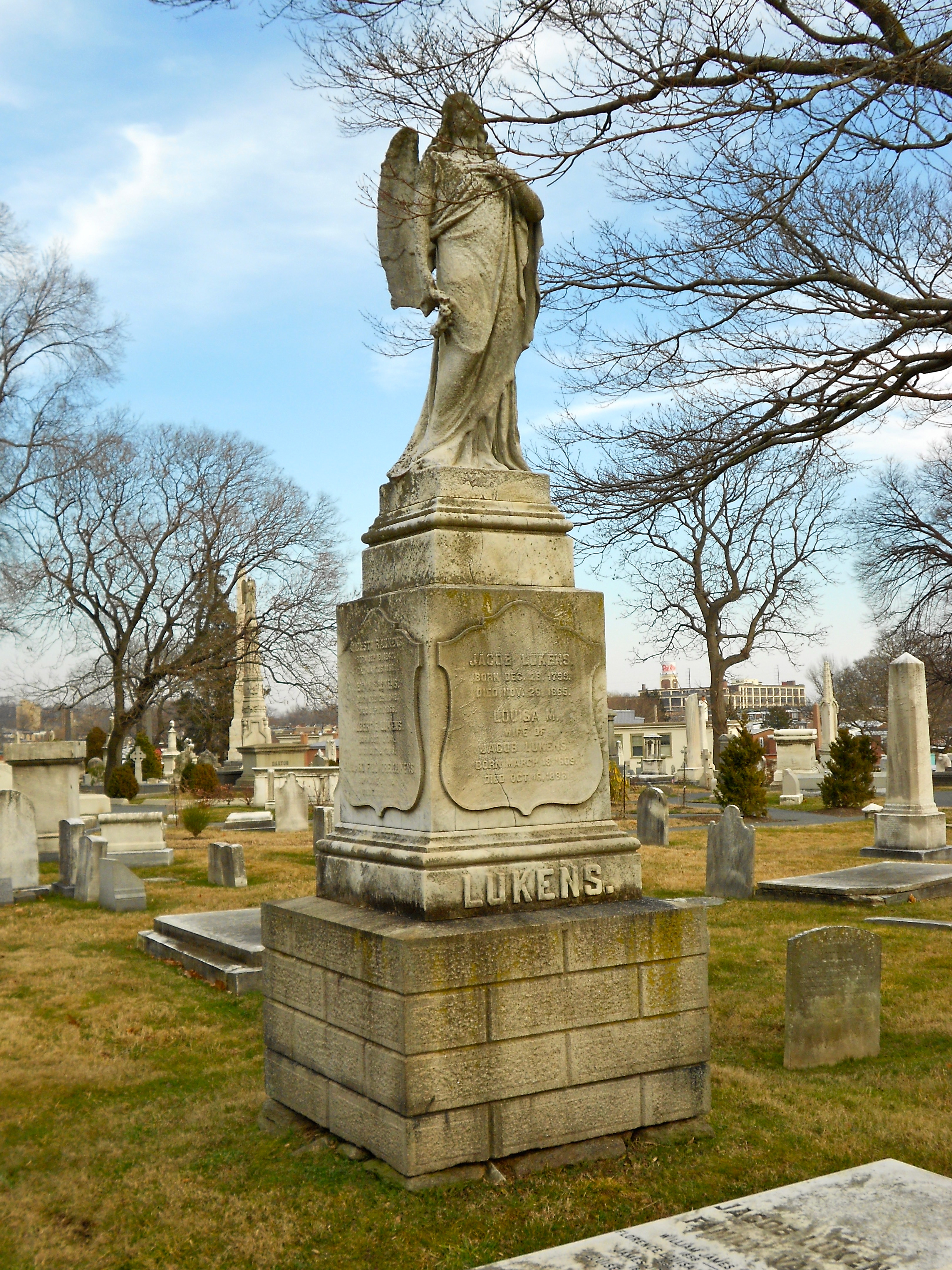 Tomb of Jacob Lukens and family in Laurel Hill Cemetery, Philadelphia. No apparent connection to Rebecca Lukens. Date 1865?